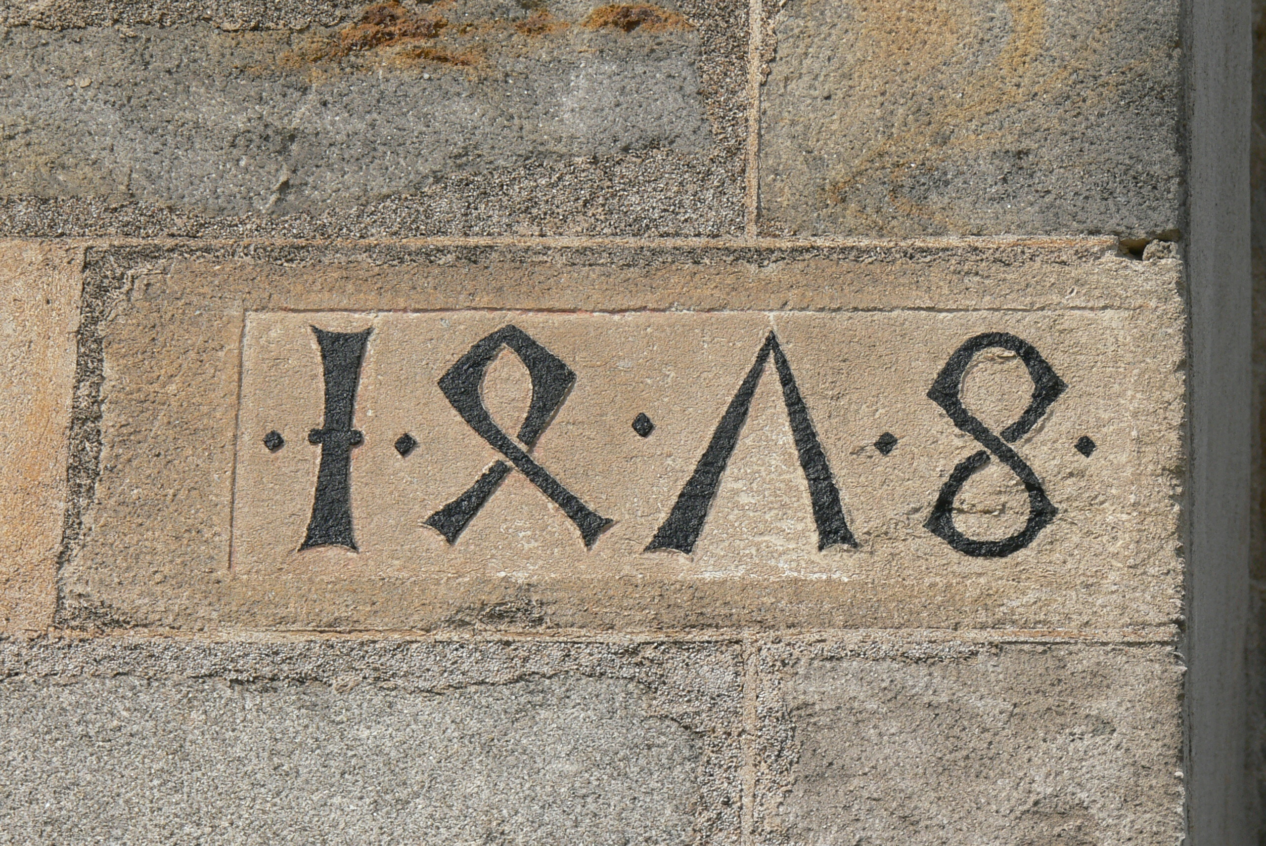 Lorch ( Enns/Upper Austria ). Basilica of Saint Lawrence - Vestry: 1478 as date of completion.